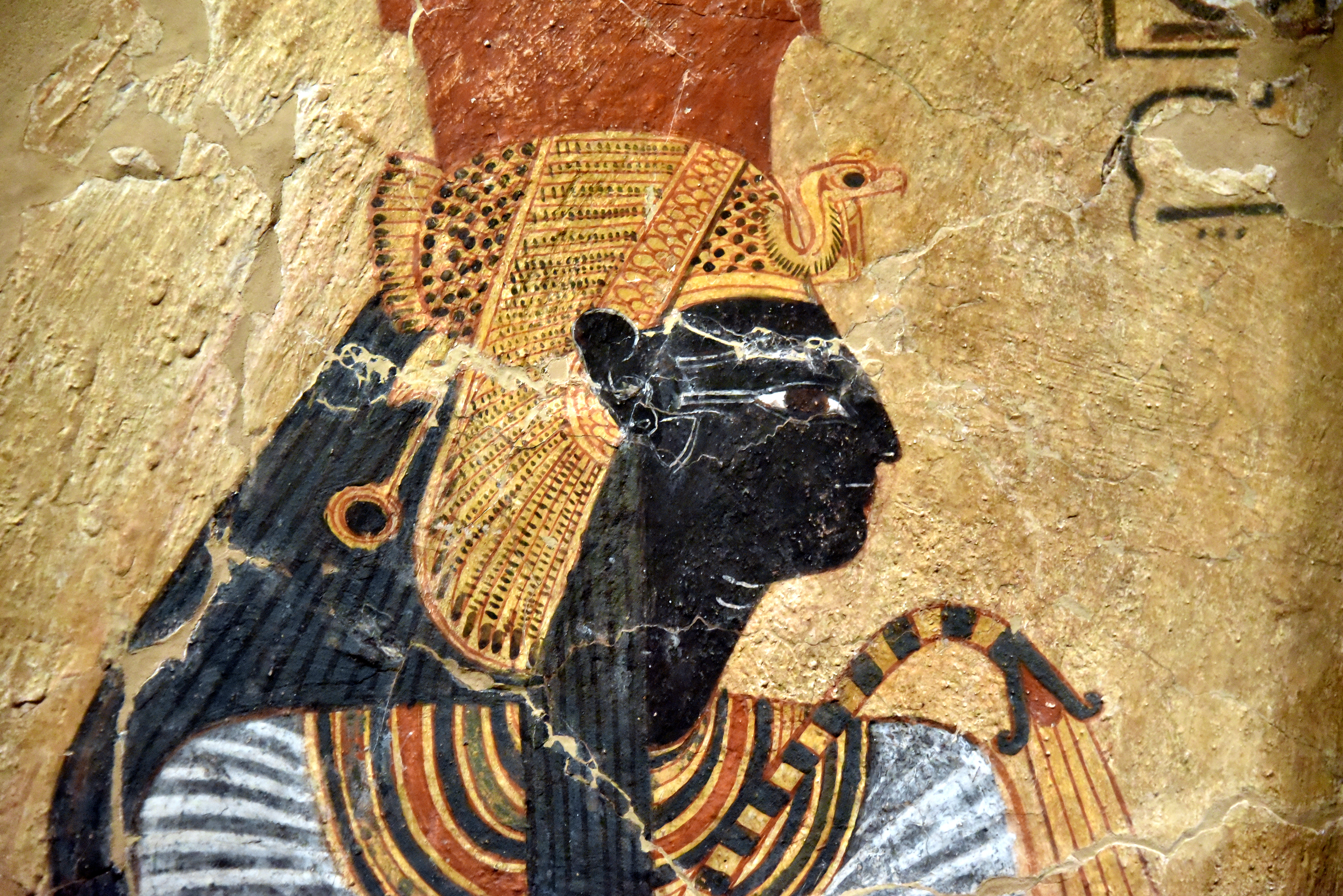 Wall painting. Representation of the deified Queen Ahmose-Nefertari, the Great Royal Wife of Ahmose I. From Tomb TT359 (Tomb of Inherkau) at Deir el-Medina, Egypt. New Kingdon, 20th Dynasty, 1186-1070 BCE. Neues Museum, Berlin, Germany. ÄM 2060.